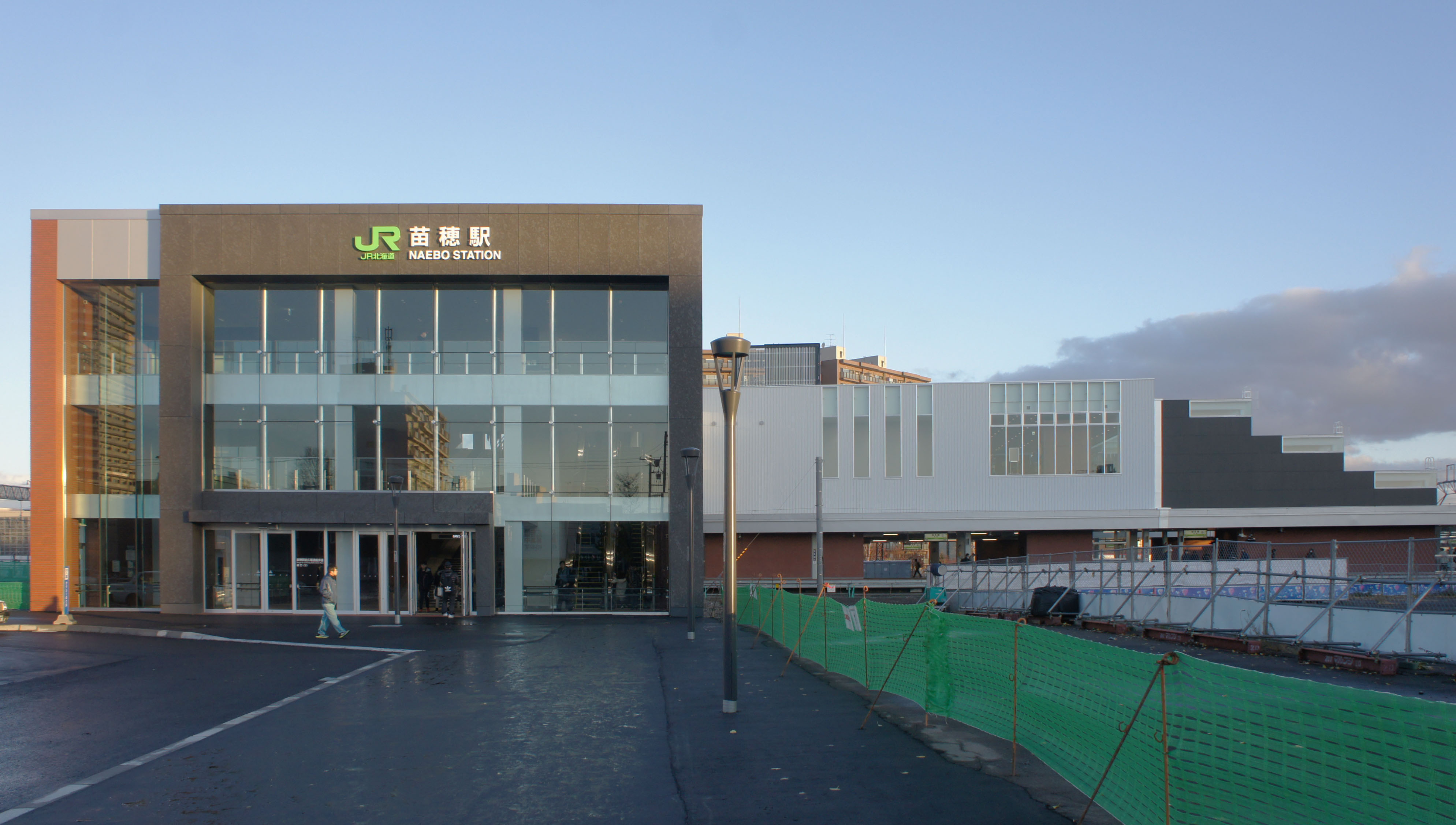 South Exit of JR Hakodate-Main-Line Naebo Station Sony NEX-3